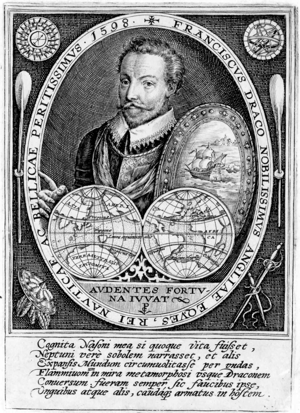 Portrait of Sir Francis Drake (c. 1540 - 1596)